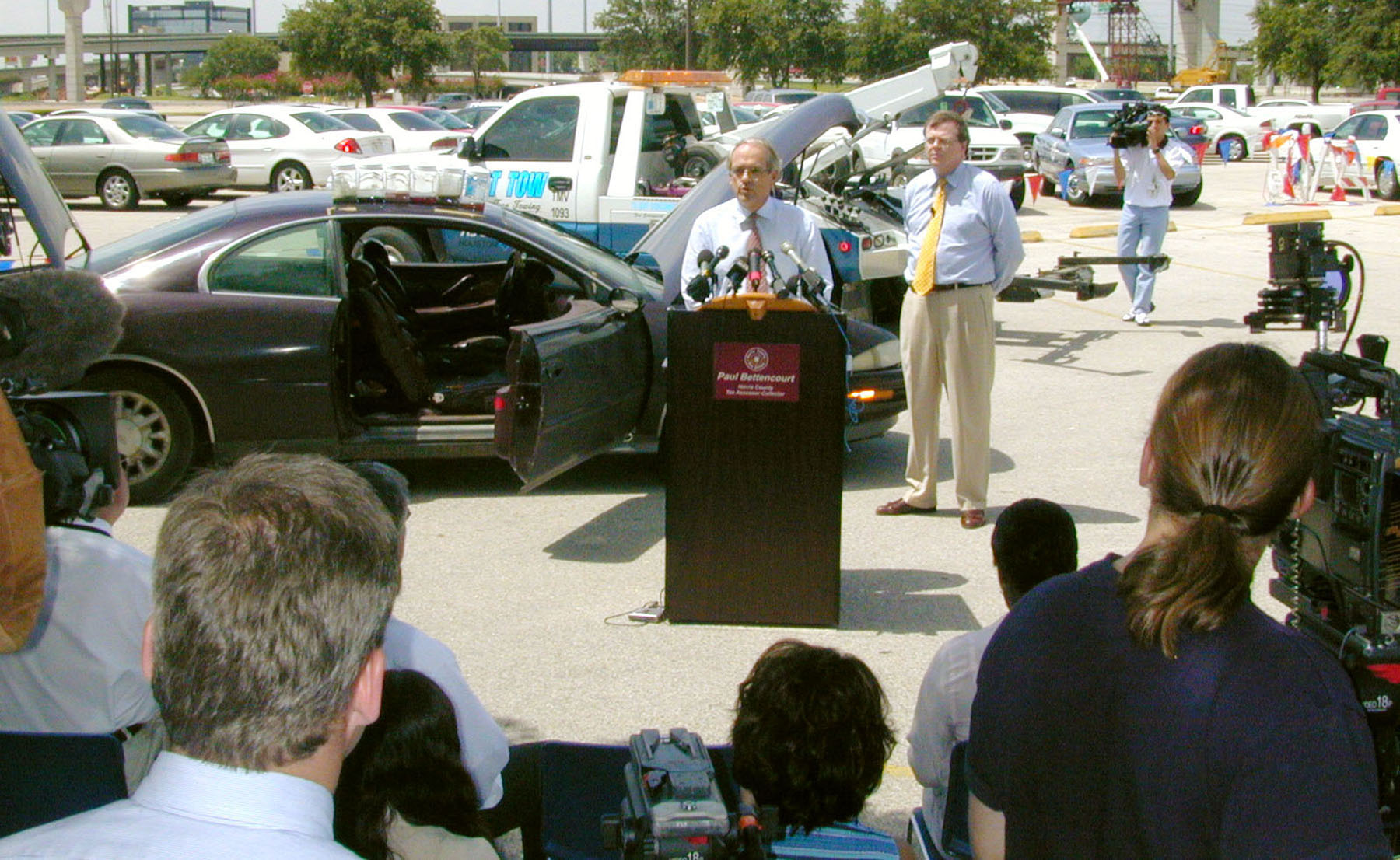 Roger Polson of the Texas Department of Transportation talks with members of the media about the sale of flood-damaged cars. Texas officials estimate that there are as many as 50,000 cars affected by the flood in southeast Texas